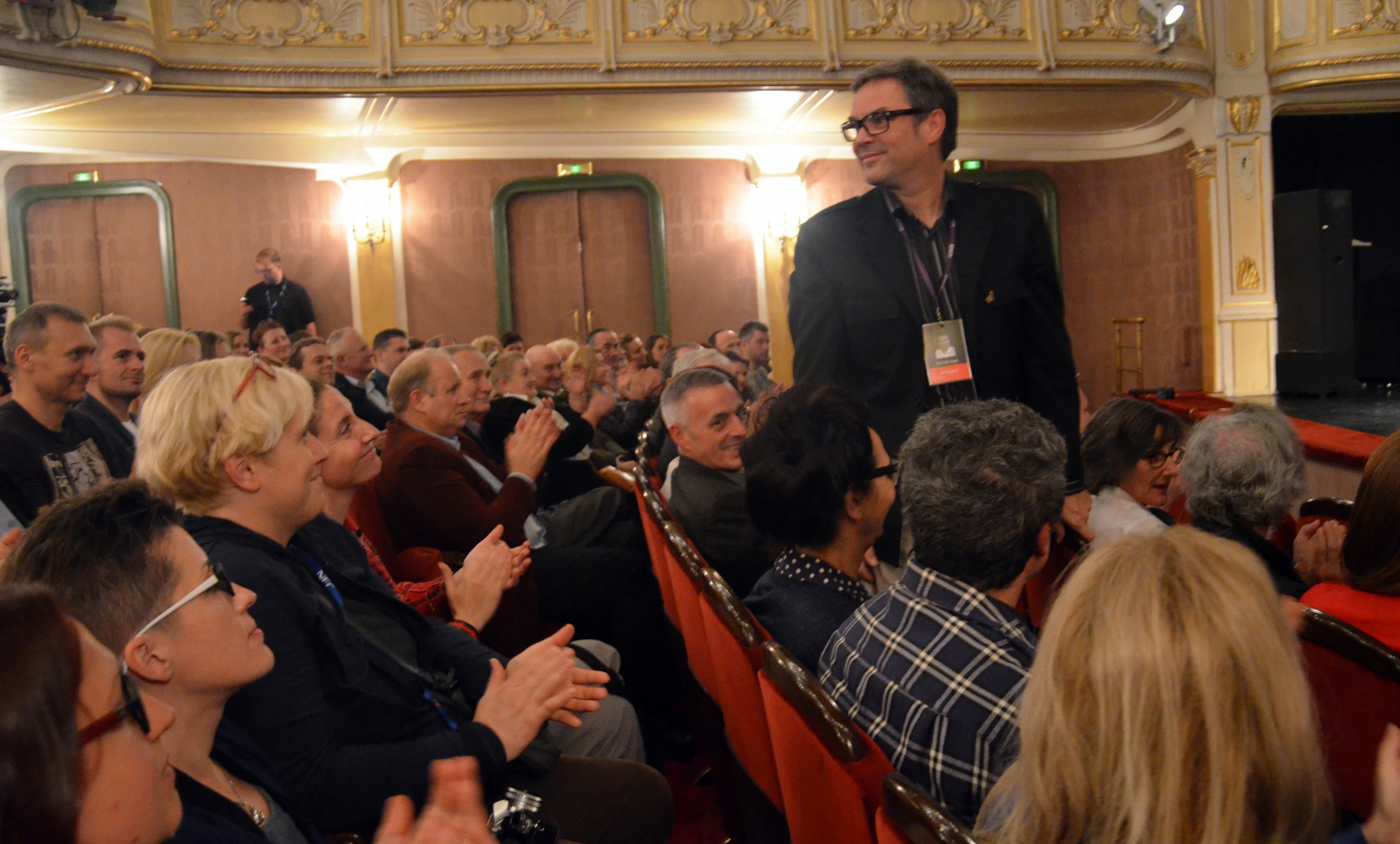 Ruud Van Empel 6. Foto Art Festival